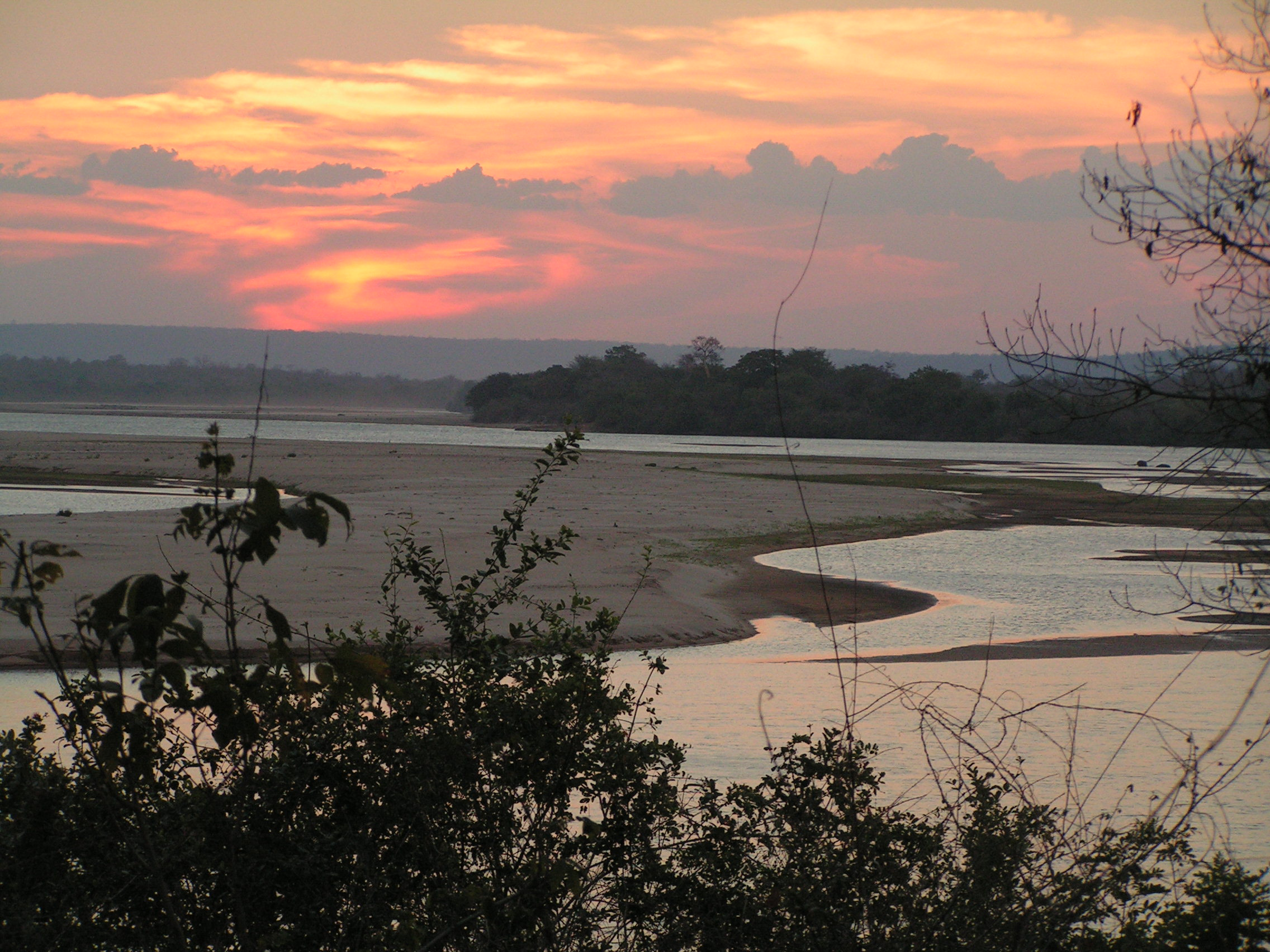 Sunset over Rufiji River in Selous Game Reserve, Tanzania